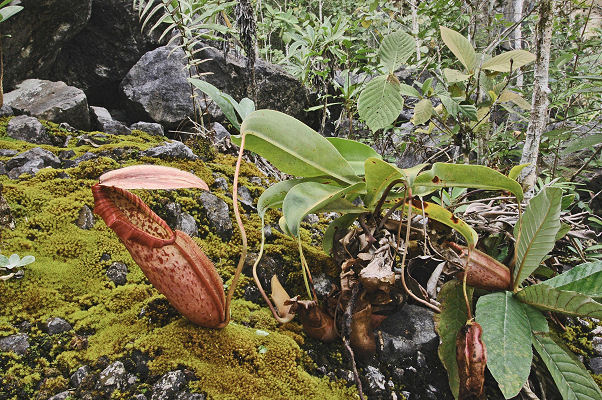 Nepenthes northiana Taken by User:rbrtjong. Released into public domain by author.